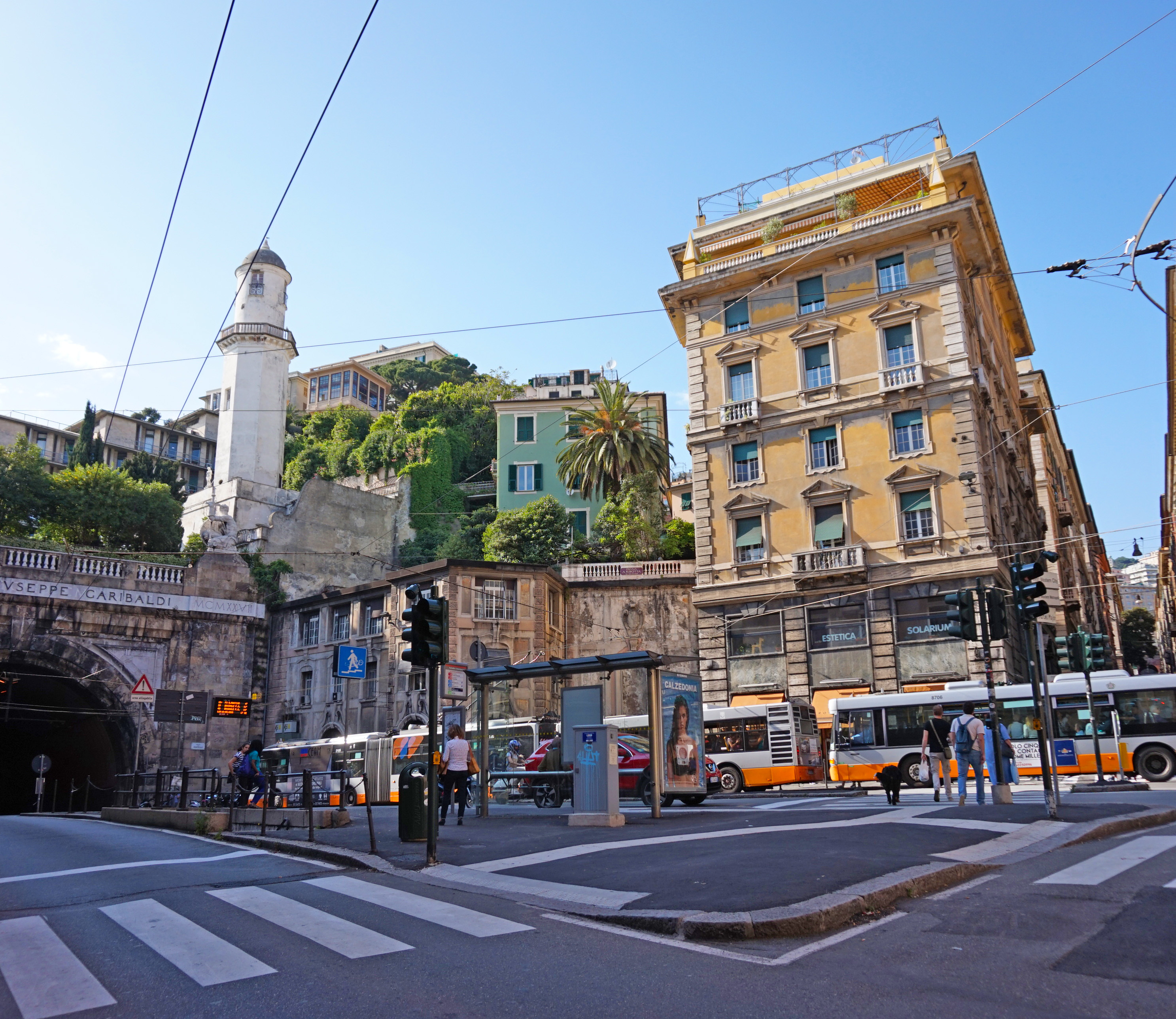 View in Genoa. This photograph was taken with a Sony Alpha a5000.